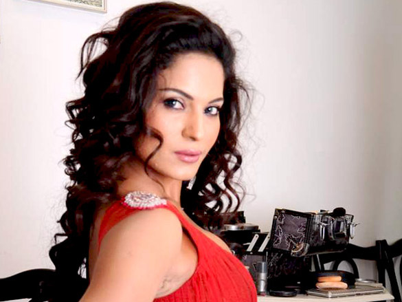 Veena Malik backless photo shoot at Riyaz Gangji's store